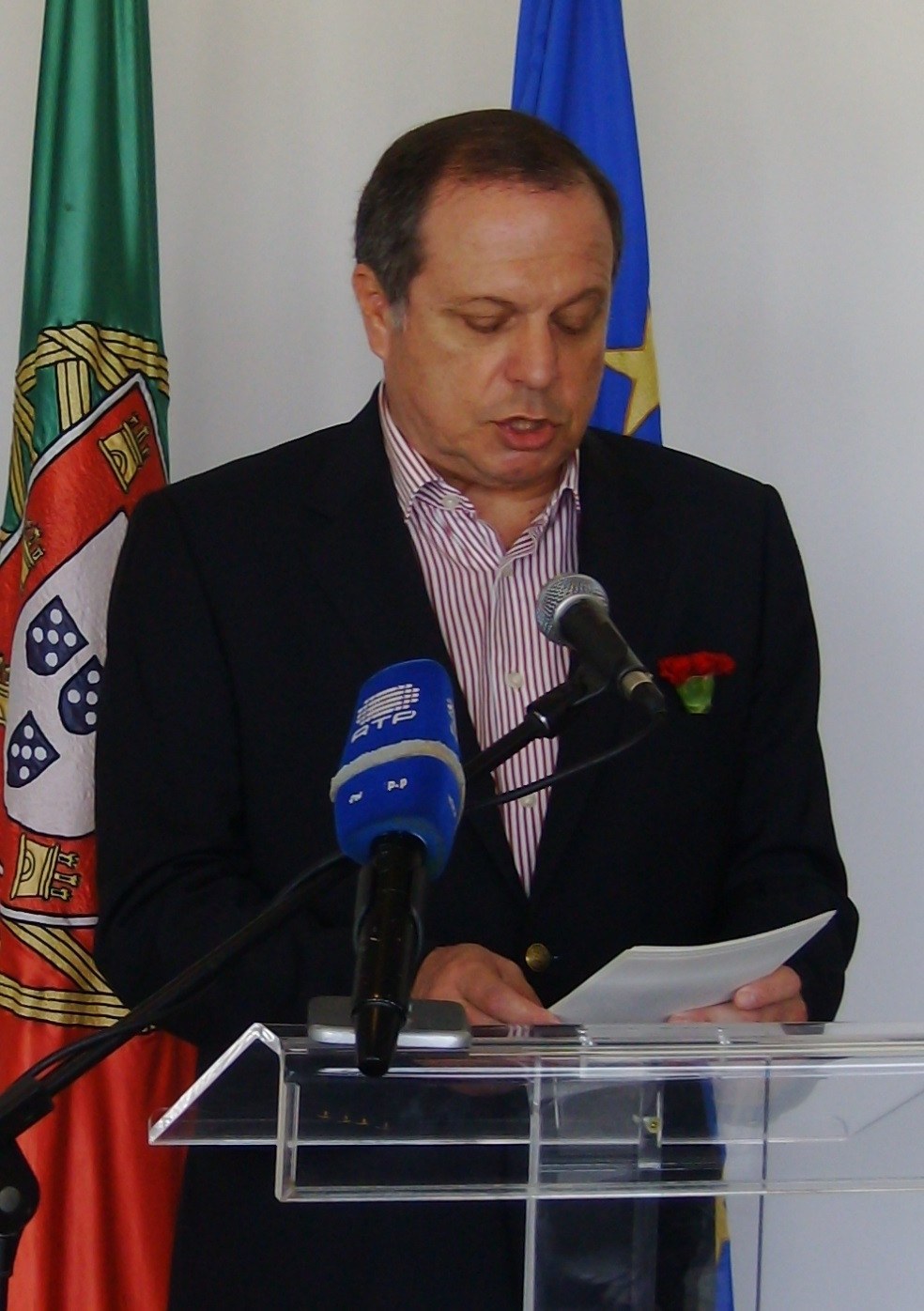 Carlos Manuel Martins do Vale César, na qualidade de Presidente do Governo Regional dos Açores, discursa na cerimónia de inauguração da Pousada da Juventude de Vila do Porto, ilha de Santa Maria, Açores.